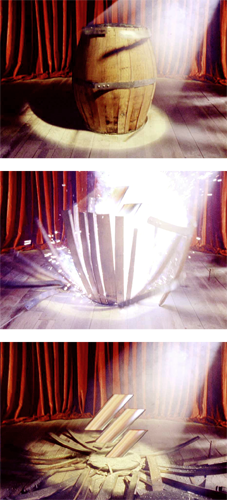 Three stills from 'Barrel of laughs' BBC Scotland ident, by Glasgow-based animation company Liquid Image. Live action, animation, VFX.